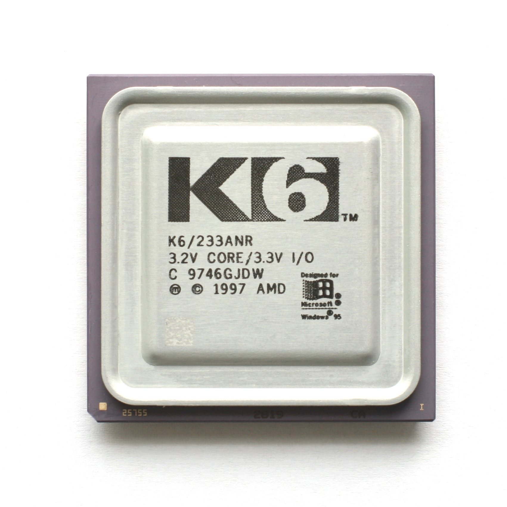 x86-CPU AMD K6 with K6-Logo.